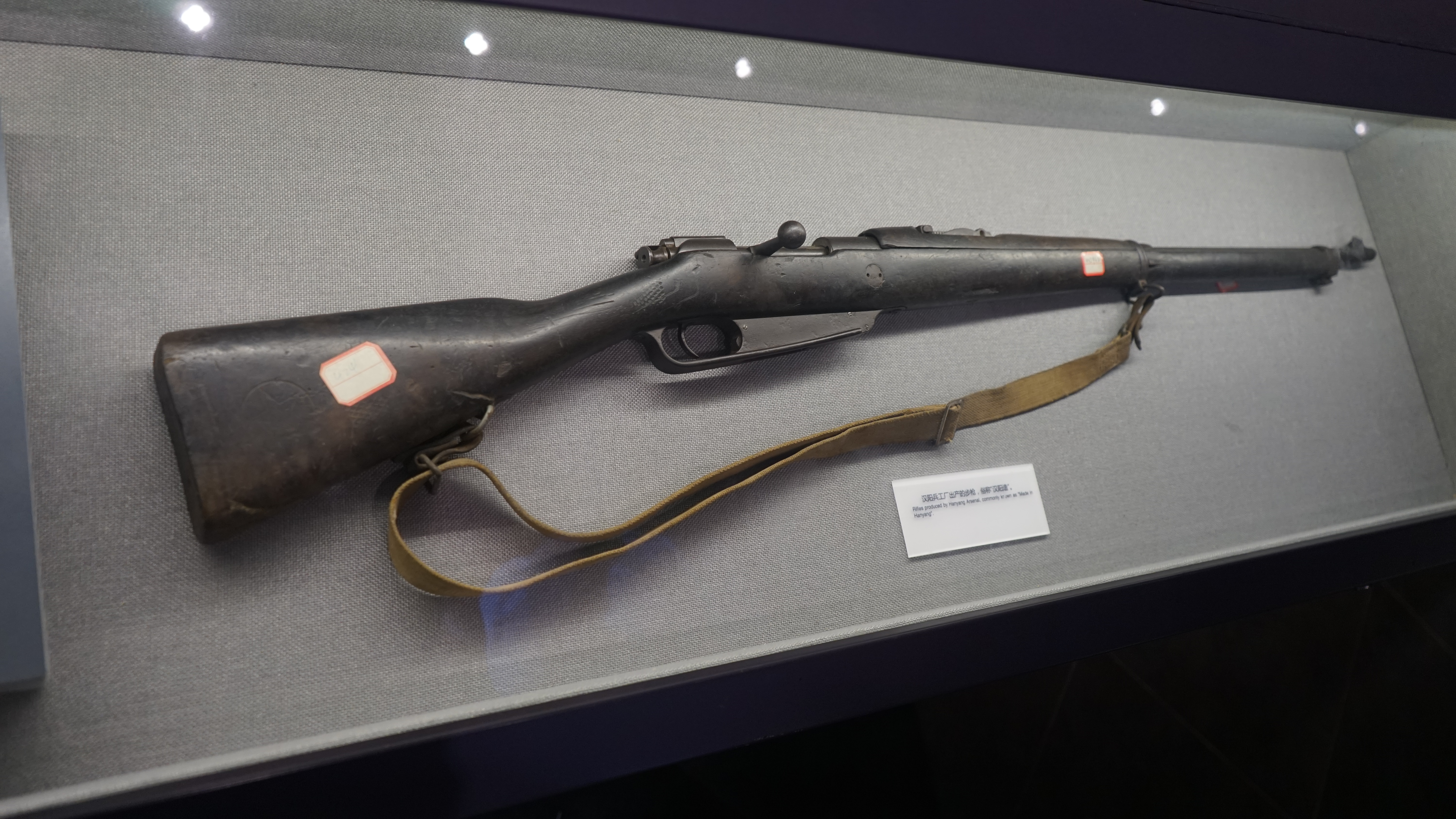 Rifles produced by Hanyang Arsenal, commonly known as "Made in Hangyang"